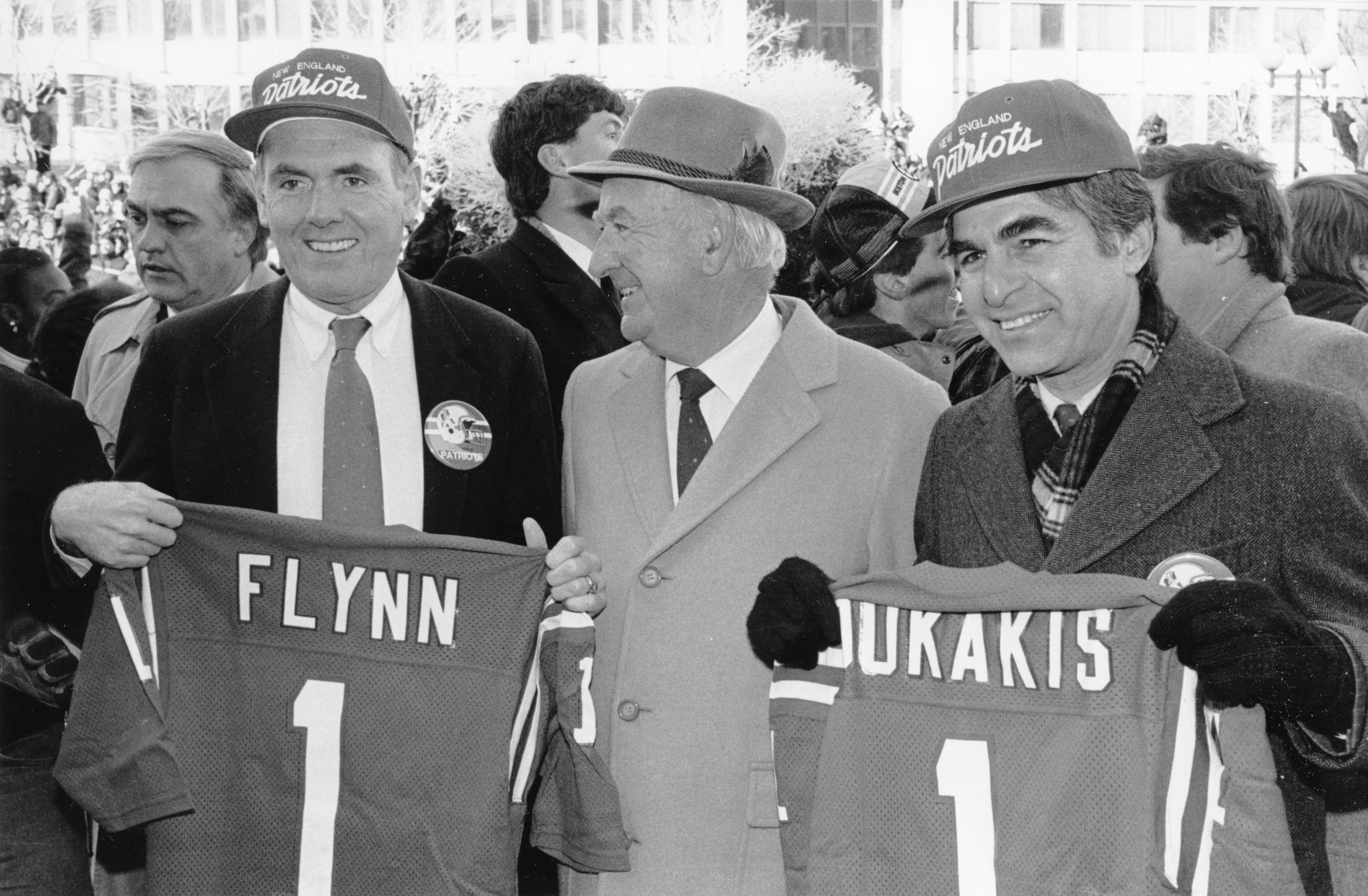 Title: Mayor Raymond L. Flynn, New England Patriots Owner Billy Sullivan, Governor Michael S. Dukakis Creator: Mayor's Office - City Photographer Date: 1985 Source: Mayor Raymond L. Flynn records, Collection #0246.001 File name: RF_0528 Rights: Copyright City of Boston Citation: Mayor Raymond L. Flynn records, Collection #0246.001, City of Boston Archives, Boston